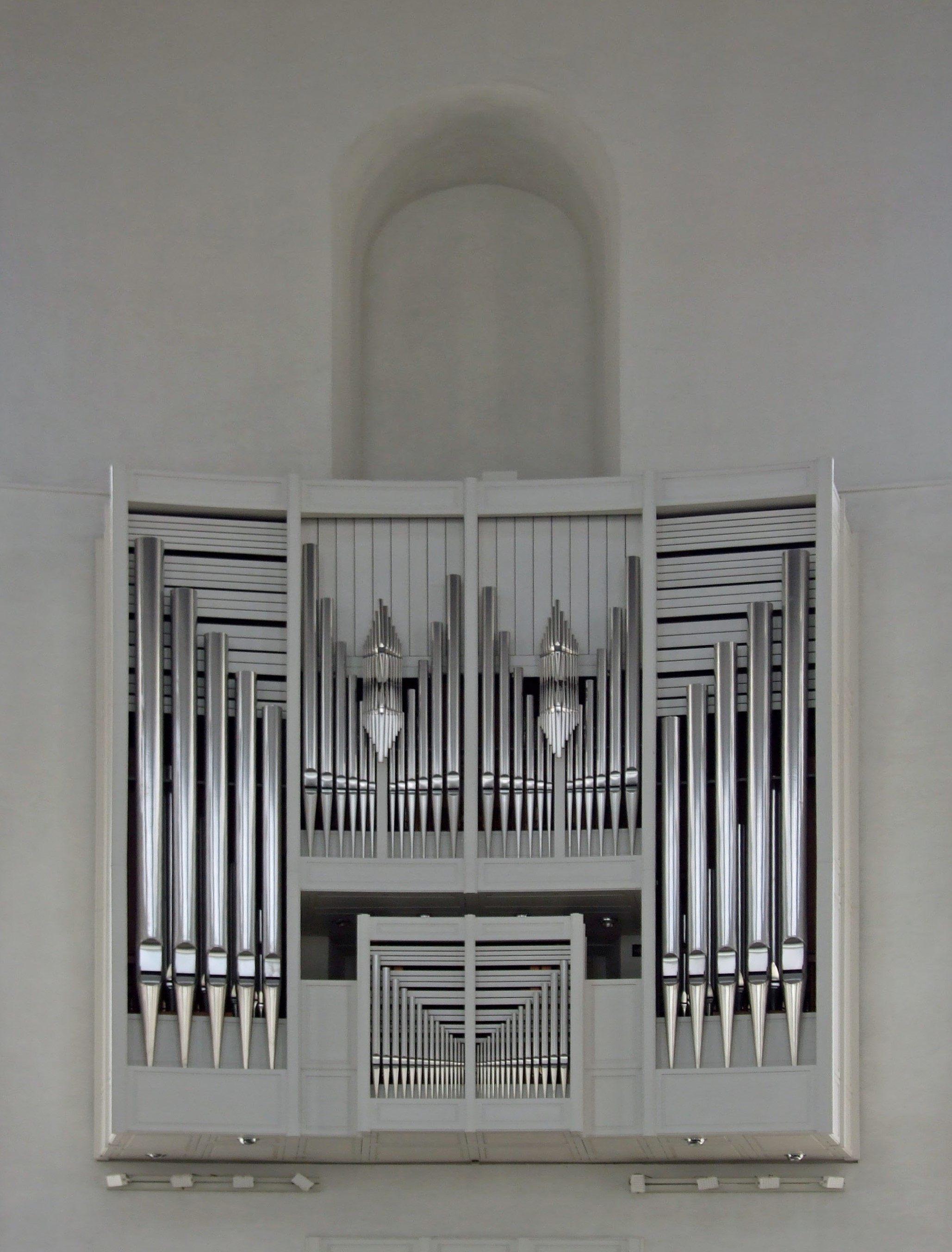 Klais-Organ (1988) in the Paulskirche (Pauls-Church) in Frankfurt am Main